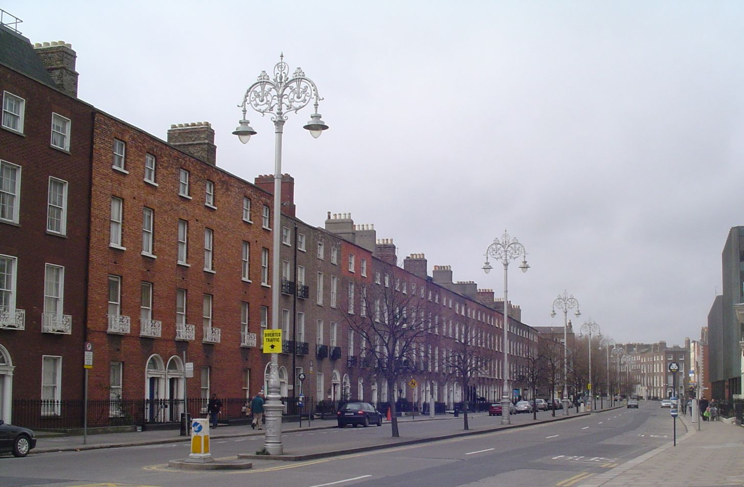 Part of Lower Baggot Street, Dublin City Centre